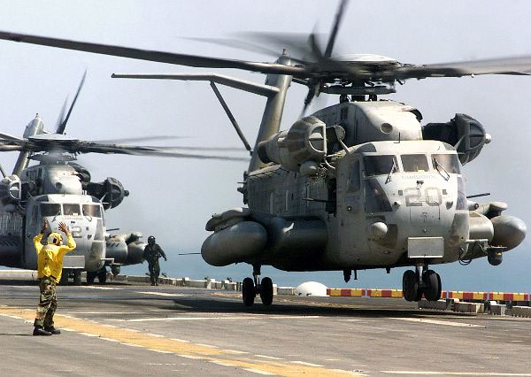 A CH-53 Super Stallion taking off from the USS Saipan (LHA-2)